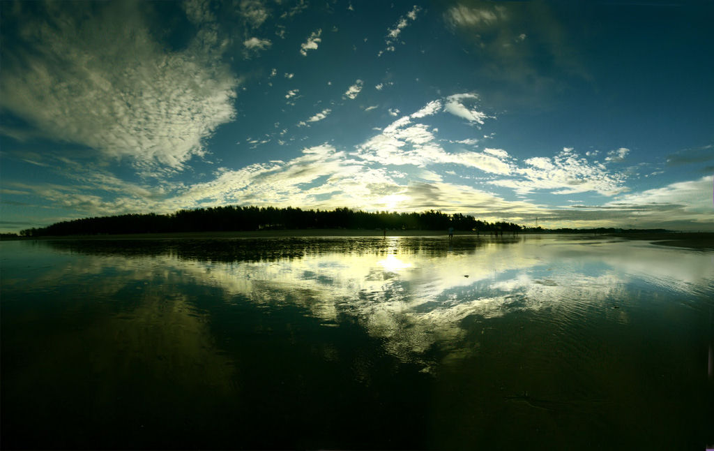 Cox's Bazar, Bangladesh, early in the morning. Clouds on a blue sky, still water and forest in the distance. 5 shot panorama handheld.05